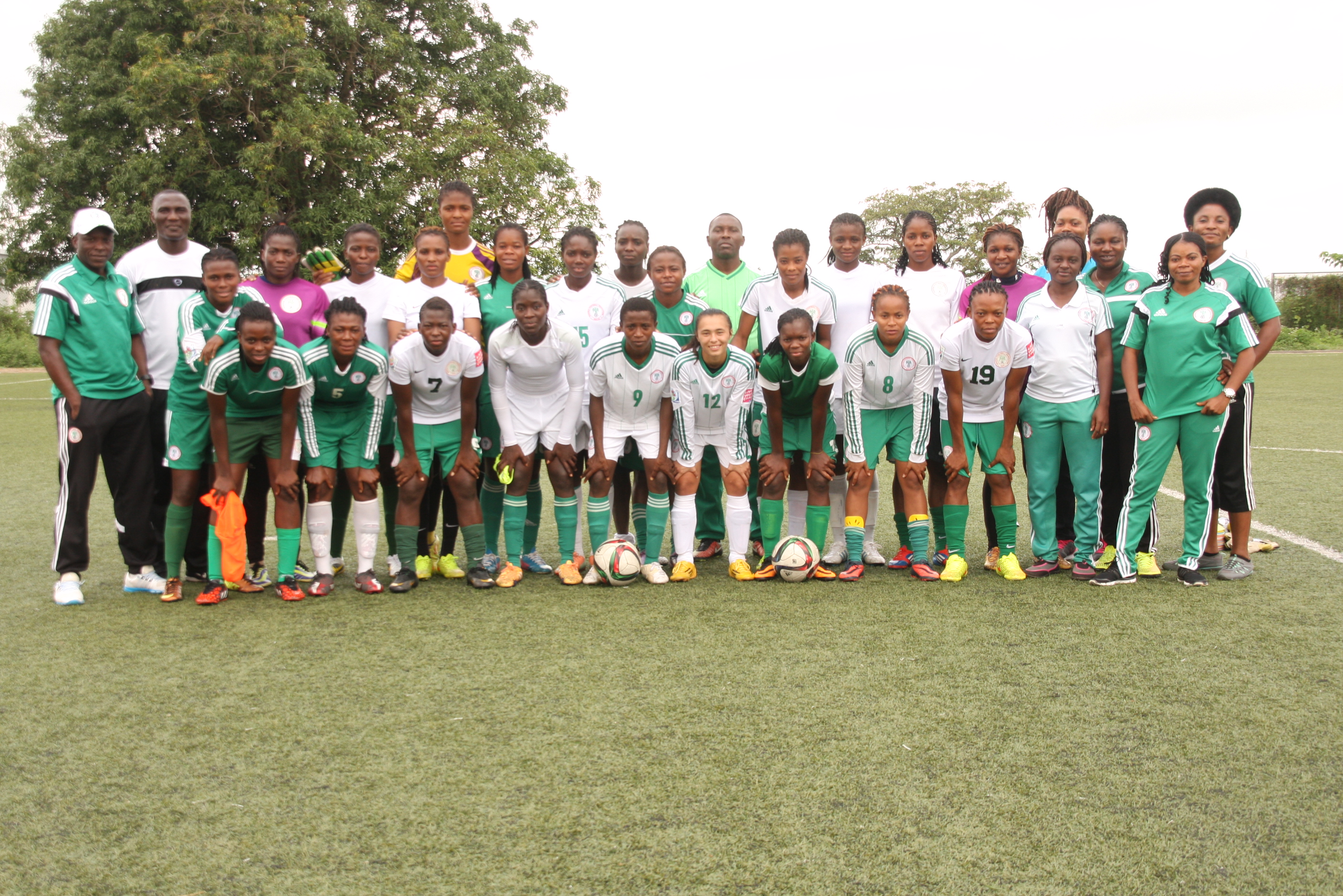 picture of the national team at camp prior to the African Worldcup Qualifiers against Congo- September 2015